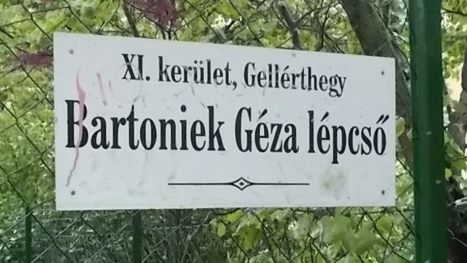 Bartoniek Géza lépcső streeet stairs street sign, Szentimreváros neighborhood, 11th district of Budapest